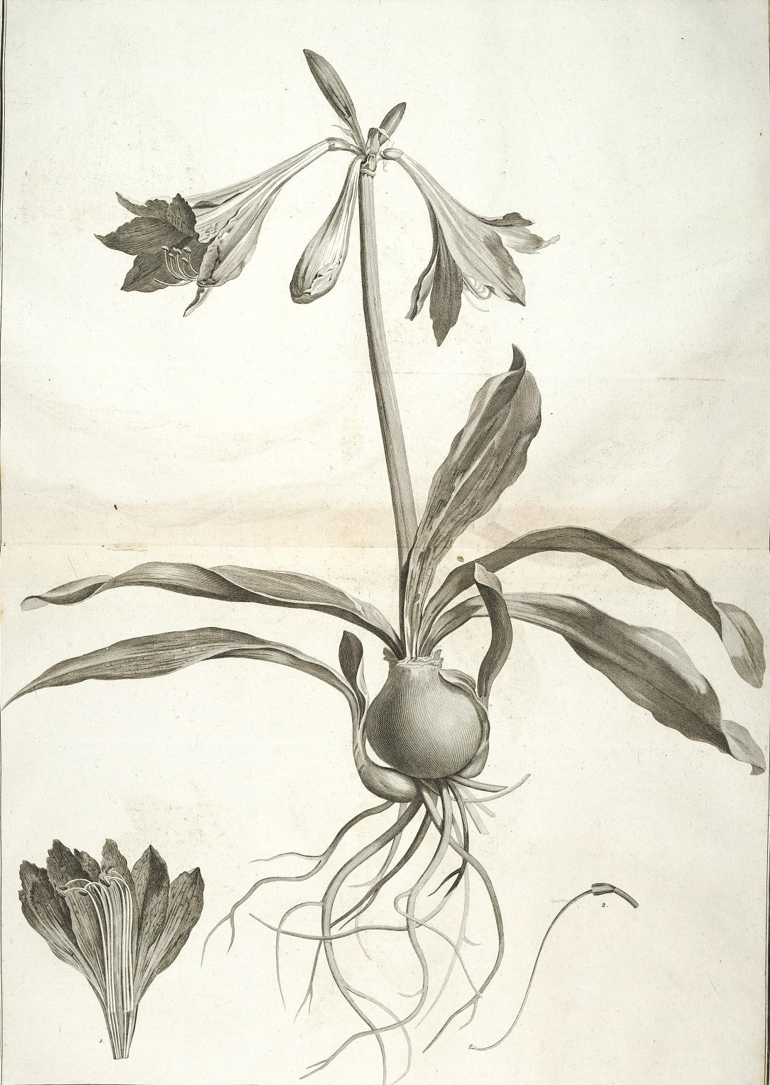 Hippeastrum reticulatum as originally described by Charles Louis L'Héritier de Brutelle in 1788 under the name Amaryllis reticulata